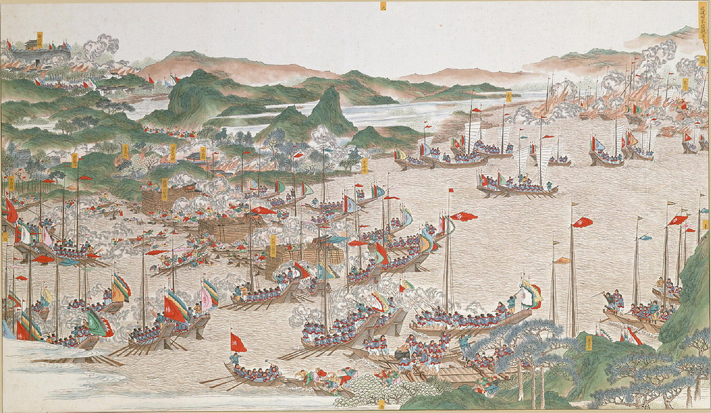 A scene of the Taiping Rebellion, 1850-1864